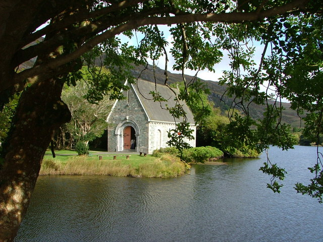 Gougane Barra Church During the 'Penal Law' times, when Catholics were forbidden to worship, this was one of the places that people would travel considerable distances in order to hear mass because it was very isolated.